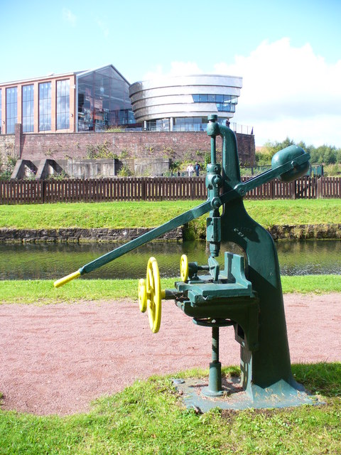 Exhibition Hall, Summerlee